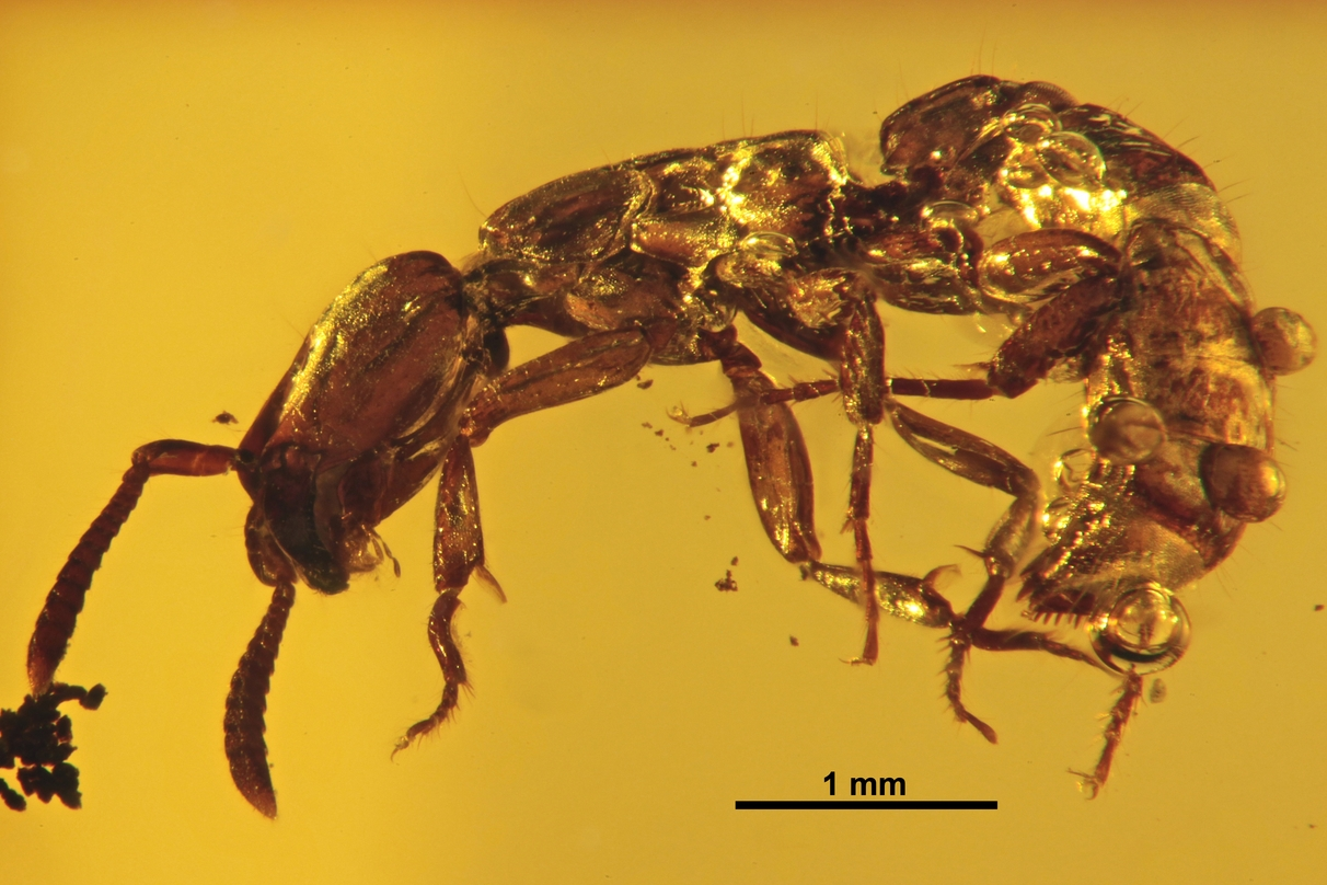 Close-up of the Acanthostichus hispaniolicus holotype profile. Specimen SMNSDO5205-1